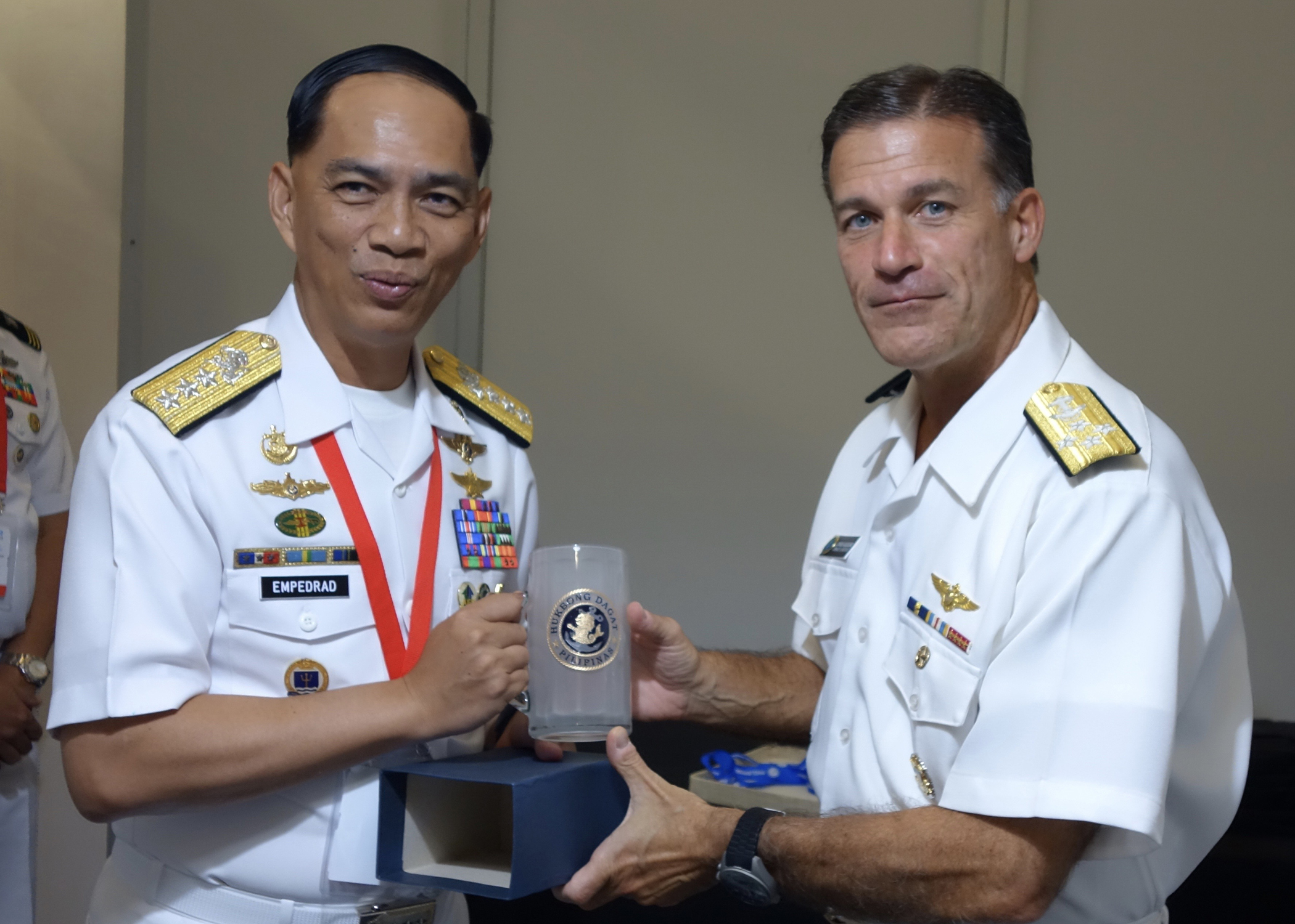 SYDNEY (Oct. 8, 2019) Adm. John C. Aquilino, commander of U.S. Pacific Fleet, receives a memento from Vice Admiral Robert Empedrad, Flag Officer-in-Command of the Philippine Navy, following discussions between the two during the Royal Australian Navy Sea Power Conference. The event, held in conjunction with the Pacific International Maritime Exposition, naval leadership from around the Indo-Pacific together do discuss maritime issues of mutual concern. (U.S. Navy photo)